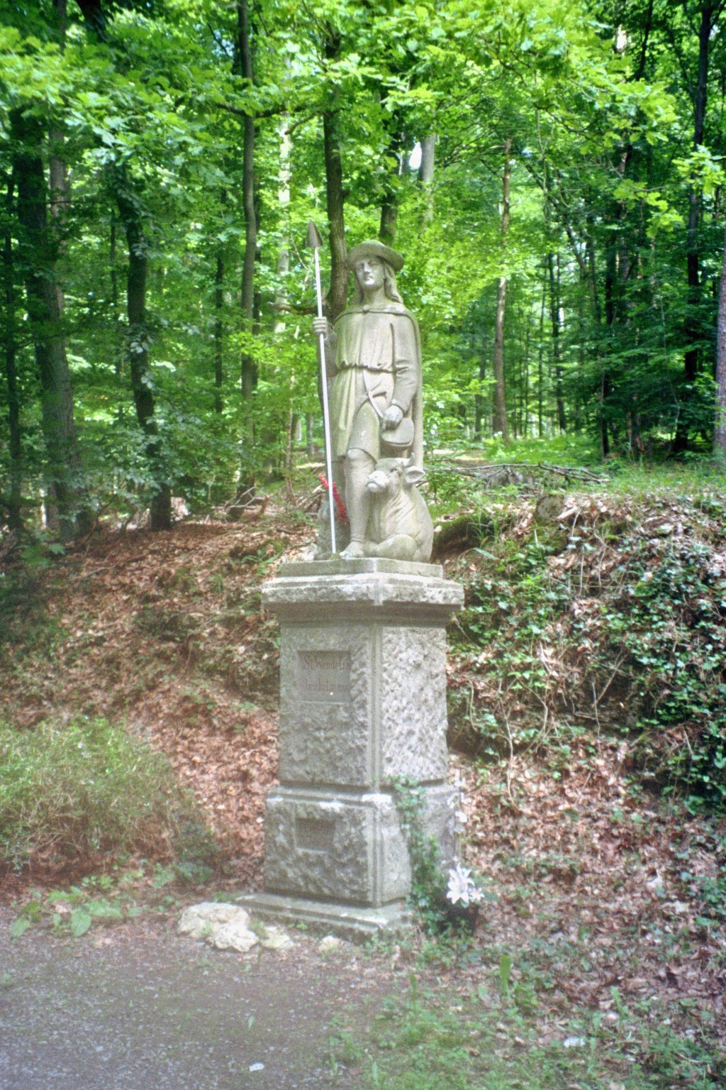 Statue of St. Wendelin in Bad Kissingen (Bavaria, Germany)